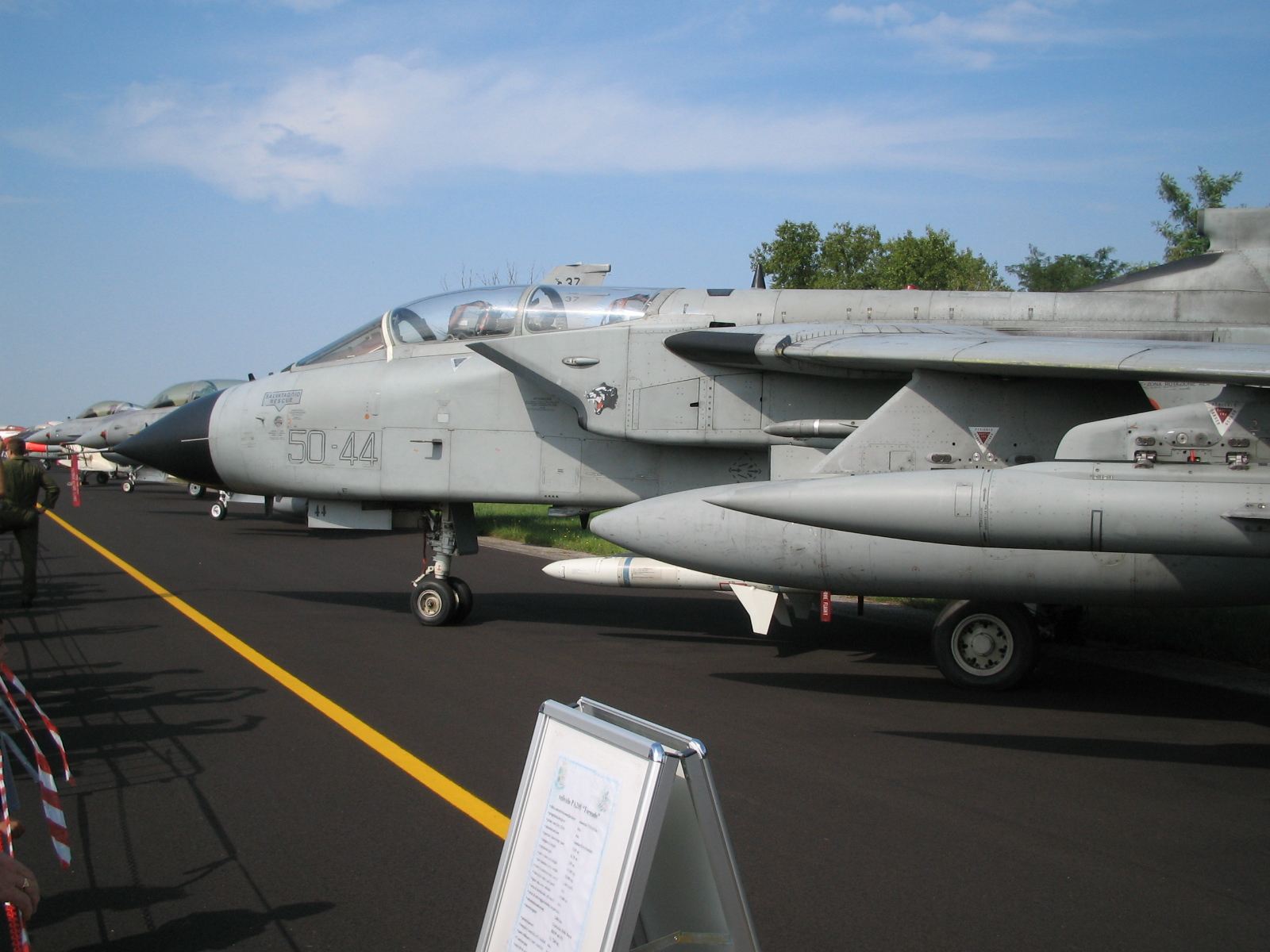 Italian Air Force Panavia Tornado ECR